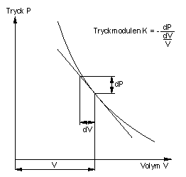 Evaluation of the bulk modulus.